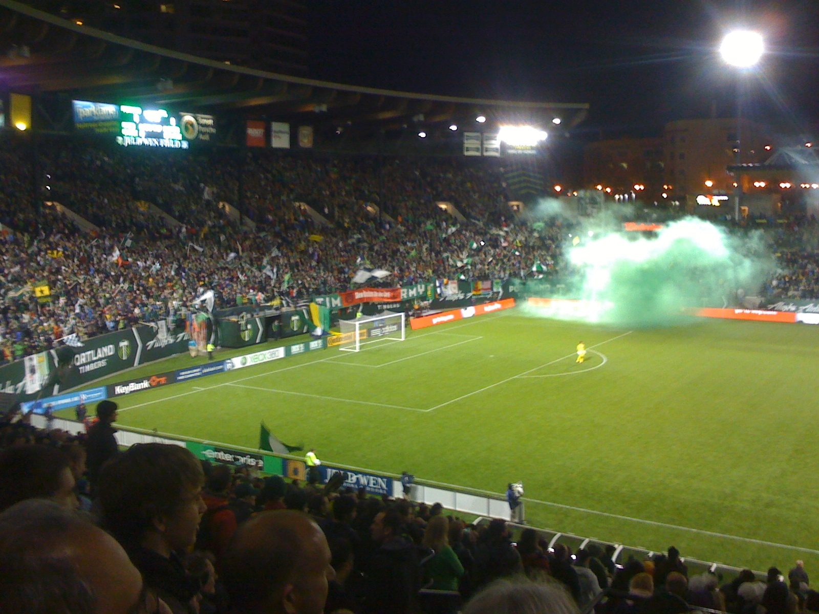 From a Portland Timbers vs Real Salt Lake match in 2012.